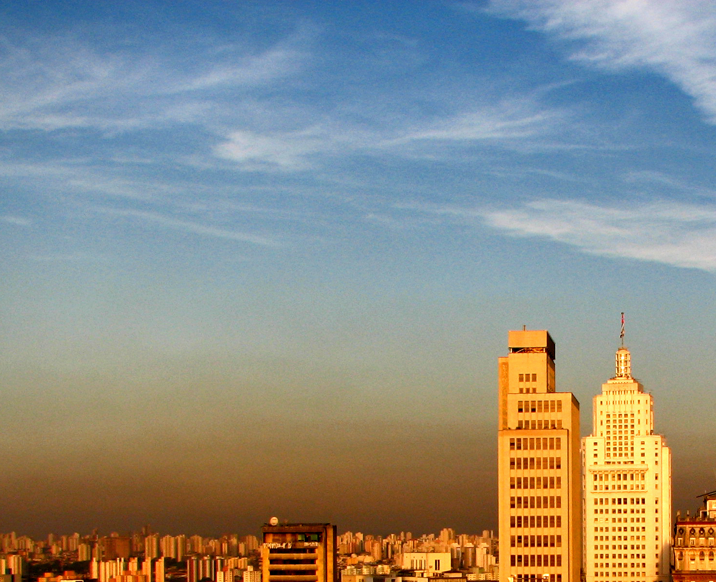 São Paulo skyline with heavy smog, looking from Downtown towards the East Side. Another version of the same image can be found at Flickr.